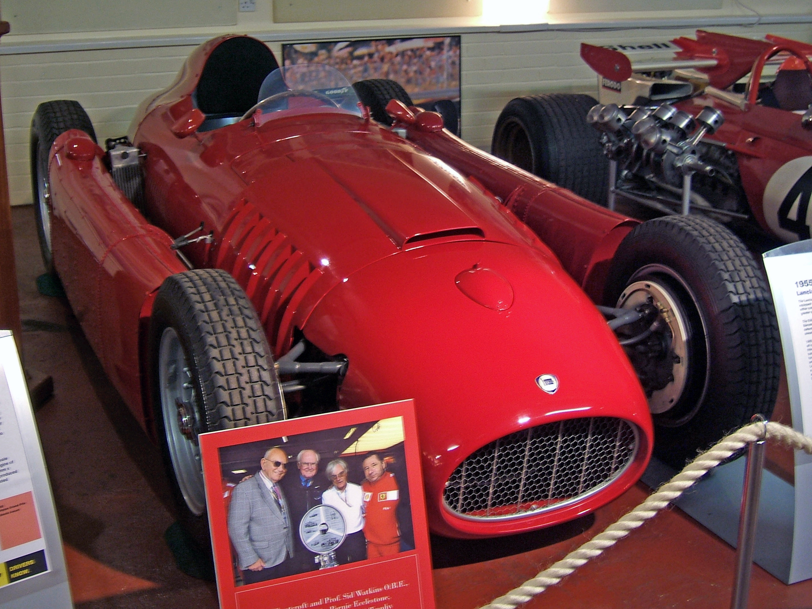 A Lancia D50 Formula One car from 1955. In the Donington Grand Prix Collection museum, Leics., UK. p.s. Sorry about the fuzziness. If you manage to get a better shot of it then feel free to upload over this pic.